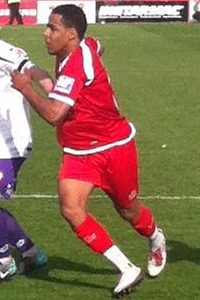 Photo taken by myself of Christian Smith during the Tamworth Vs. Crawley Town game on April 9 2011 at The Lamb Ground.